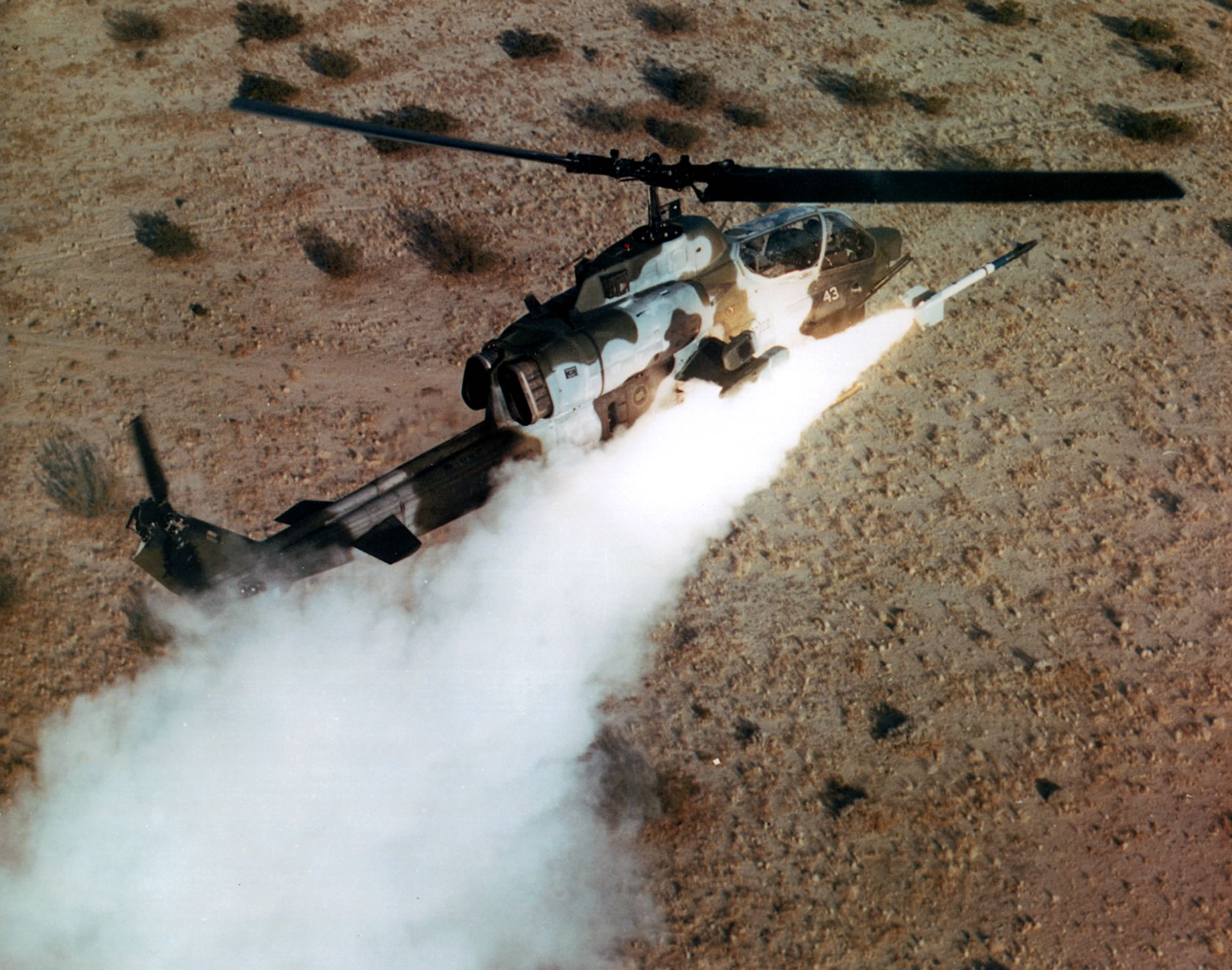 A U.S. Navy Bell AH-1W SuperCobra (BuNo 159228, XE-43) assigned to Air Test and Evaluation Squadron VX-5, fires an AIM-9L Sidewinder missile, at China Lake, California (USA), 11 June 1987.